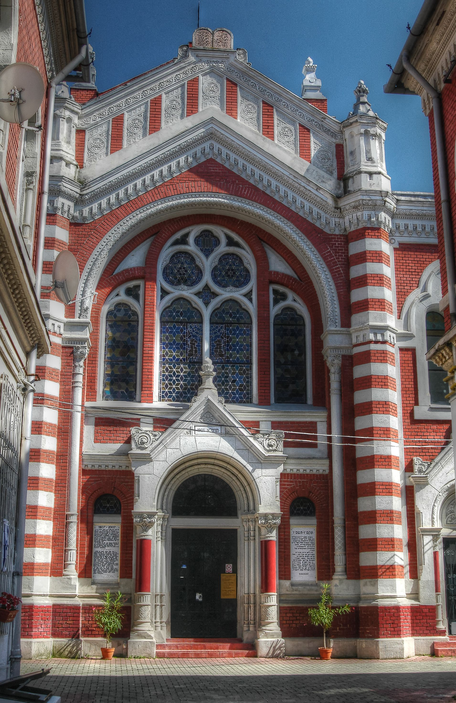 Neolog Jewish temple in Brașov